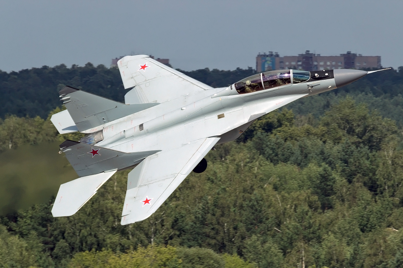 Russian Air Force Mikoyan-Gurevich MiG-29M-2